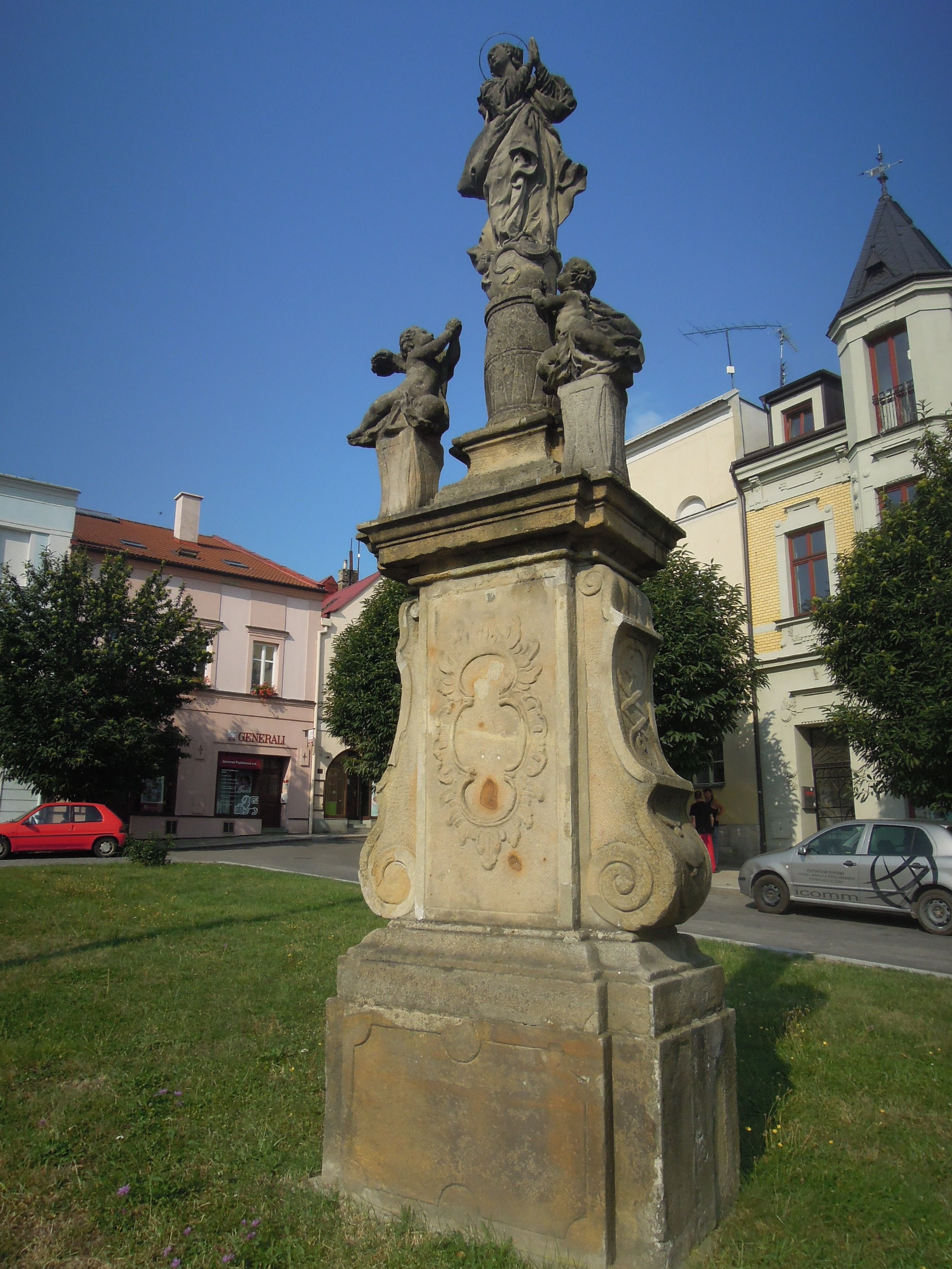 Virgin Mary column in Odry, Nový Jičín District, Moravian-Silesian Region, Czech Republic